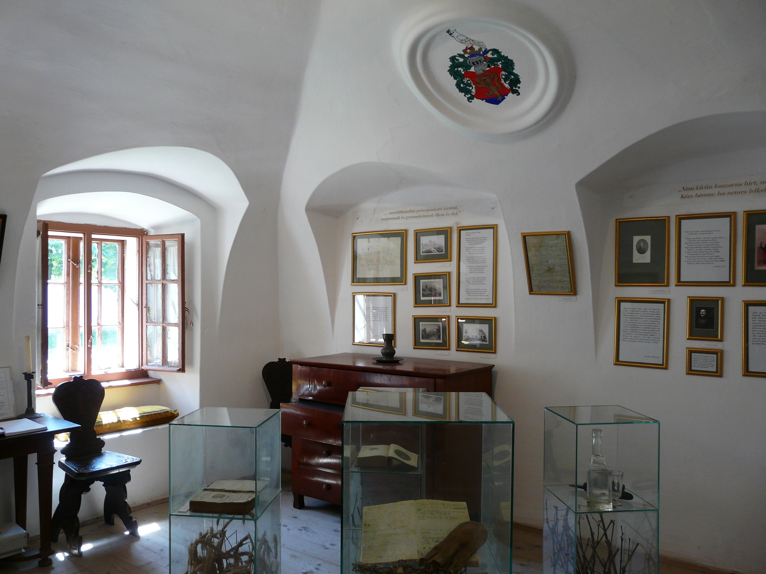 Room in the Memorial house of Hungarian poet Dániel Berzsenyi in Egyházashetye